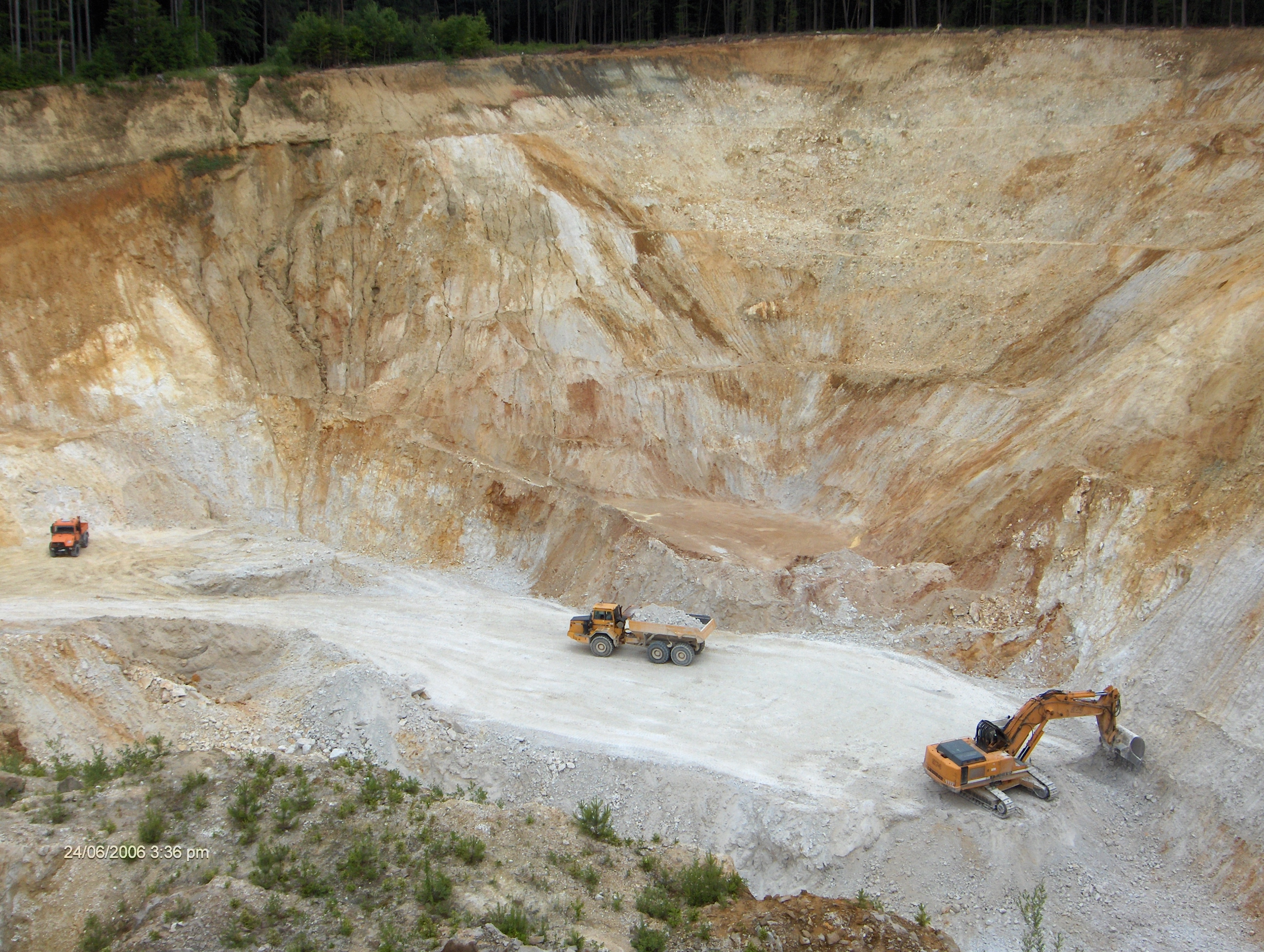 Today's mining of the mineral